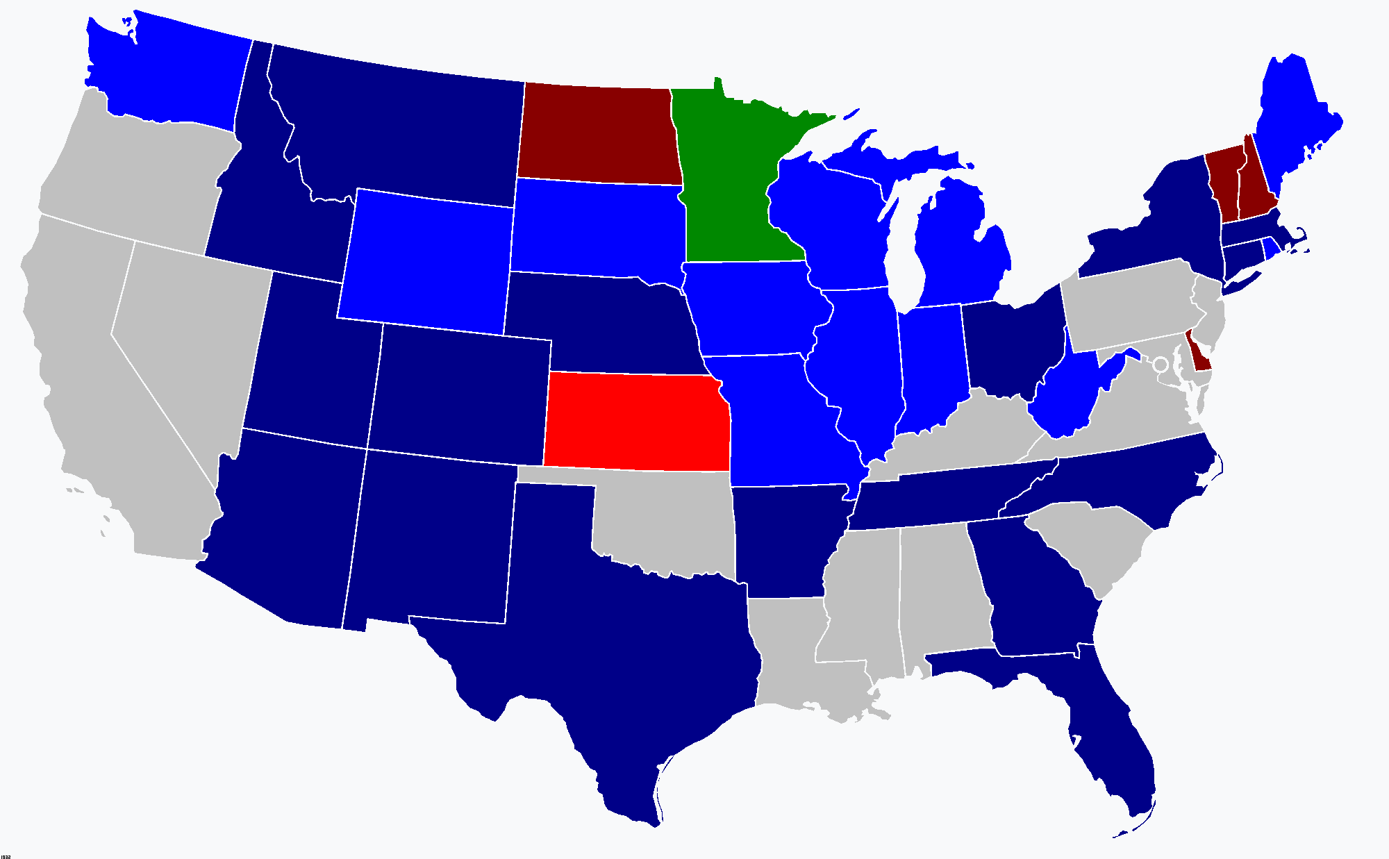 A map showing the results of the 1932 United States Gubernatorial elections